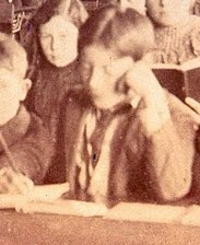 Pinto Colvig in Jacksonville School.